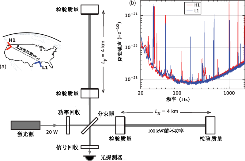 Simplified diagram of an Advanced LIGO detector (not to scale). A gravitational wave propagating orthogonally to the detector plane and linearly polarized parallel to the 4-km optical cavities will have the effect of lengthening one 4-km arm and shortening the other during one half-cycle of the wave; these length changes are reversed during the other half-cycle. The output photodetector records these differential cavity length variations. While a detector’s directional response is maximal for this case, it is still significant for most other angles of incidence or polarizations (gravitational waves propagate freely through the Earth). Inset (a): Location and orientation of the LIGO detectors at Hanford, WA (H1) and Livingston, LA (L1). Inset (b): The instrument noise for each detector near the time of the signal detection; this is an amplitude spectral density, expressed in terms of equivalent gravitational-wave strain amplitude. The sensitivity is limited by photon shot noise at frequencies above 150 Hz, and by a superposition of other noise sources at lower frequencies [47]. Narrow-band features include calibration lines (33–38, 330, and 1080 Hz), vibrational modes of suspension fibers (500 Hz and harmonics), and 60 Hz electric power grid harmonics.